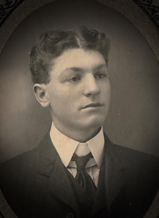 Photograph of Thomas H. Wright, c. 1895, unknown photographer